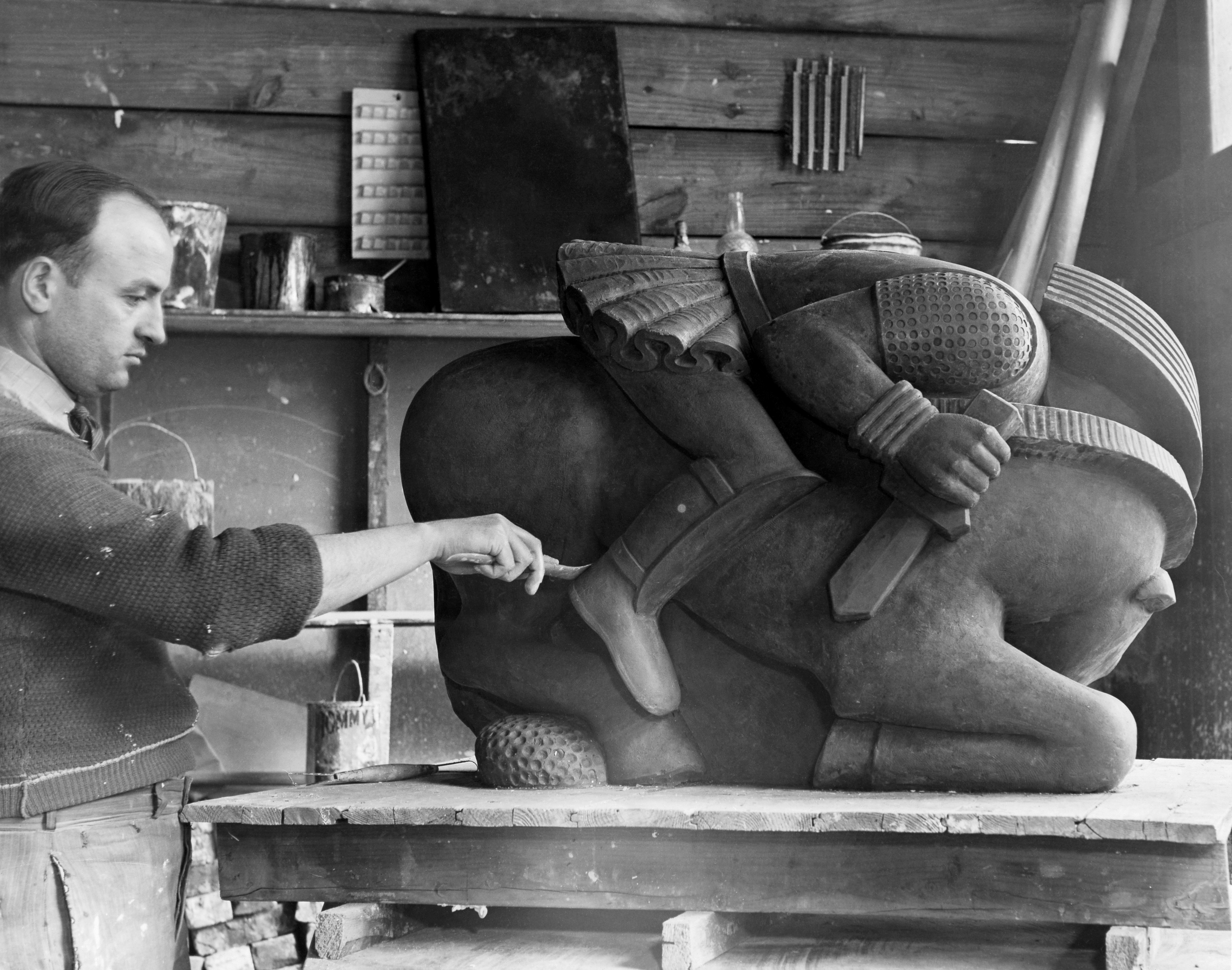 Photograph of Waylande Gregory at work on the sculpture Light Dispelling Darkness, for a fountain in Roosevelt Park in Edison, New Jersey. More information